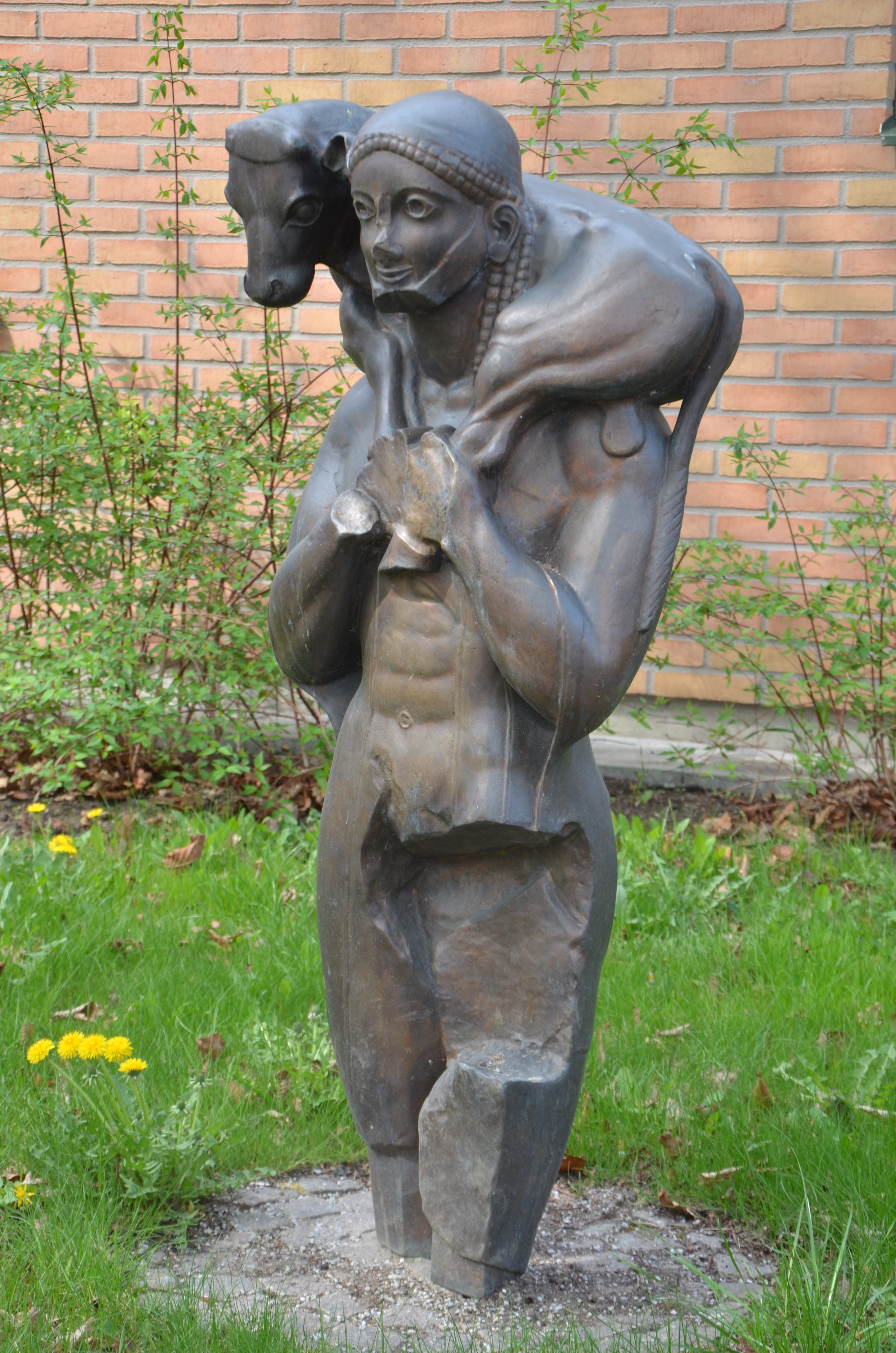 Cecilia Edefalk's Kalvbäraren, bronze, 2009, Ringvägen 1B, Lund, Sweden